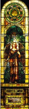 Tiffany Window in First Presbyterian Church, Springfield, Illinois U.S.A.